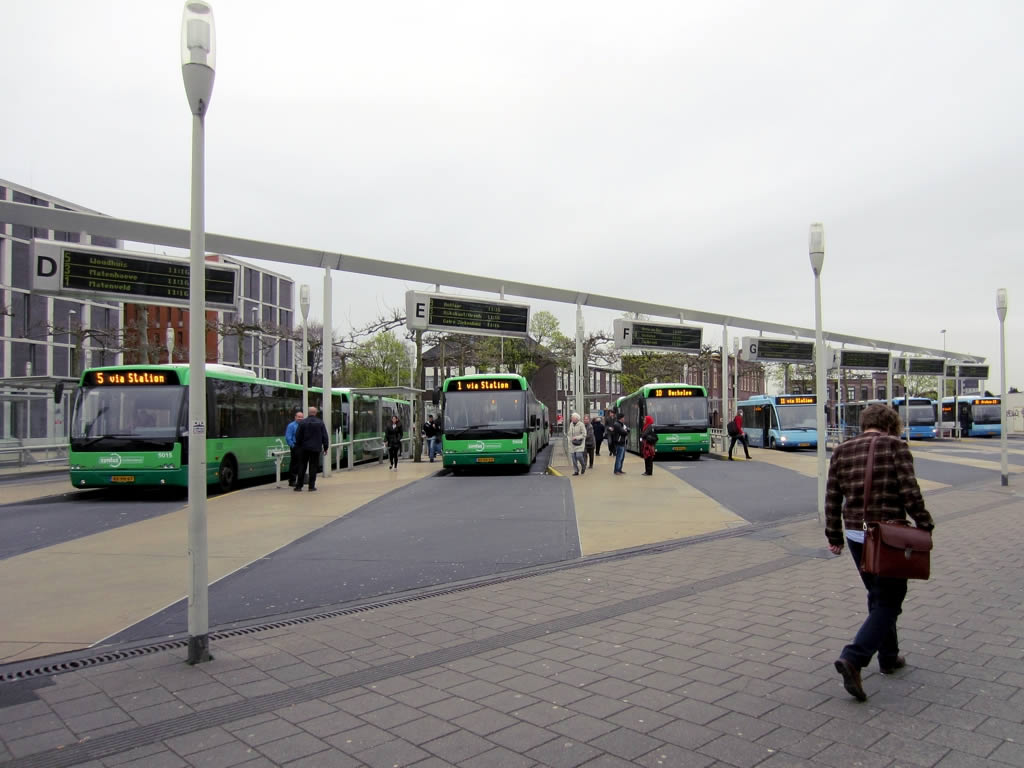 Bus Station, Apeldoorn, The Netherlands